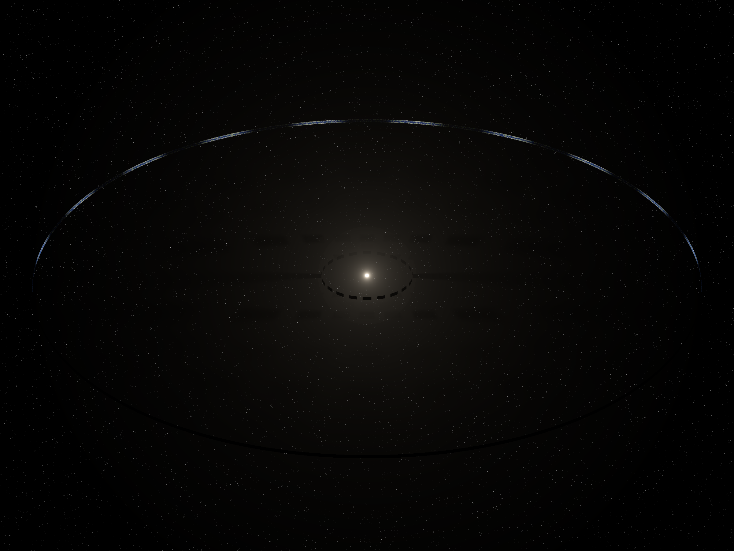 Artistic rendering of the fictional Ringworld structure by Larry Niven.